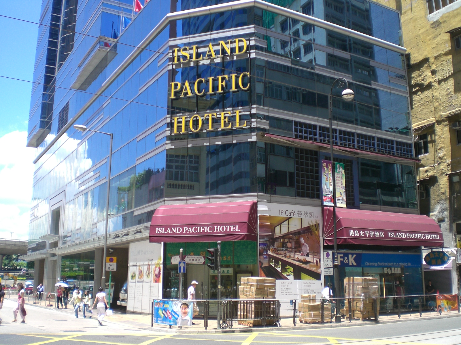 港島太平洋酒店, 西營盤 正街北端, Centre Street, Hong Kong Author= Kwanyatsw